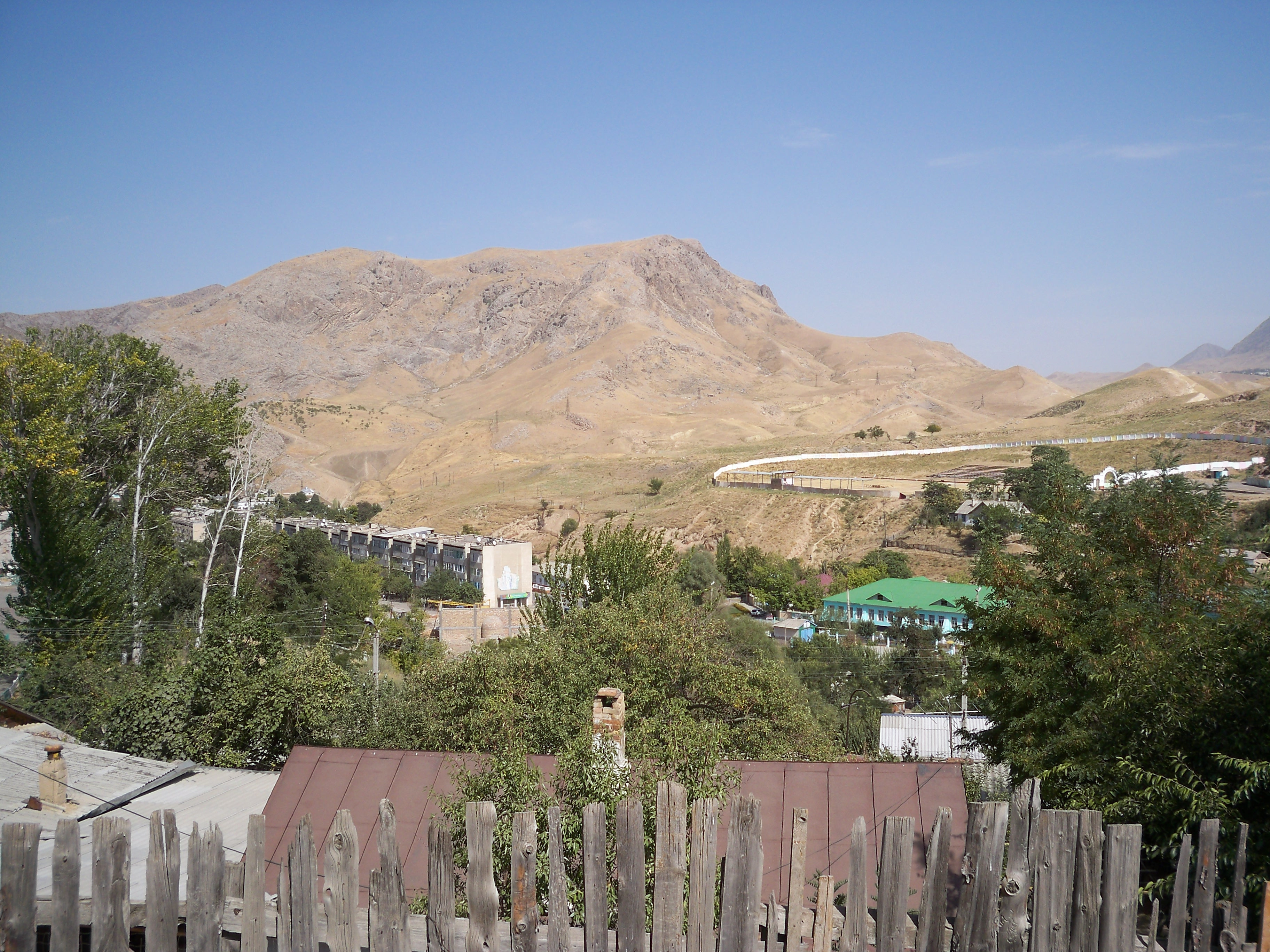 General view of Sulyukta.